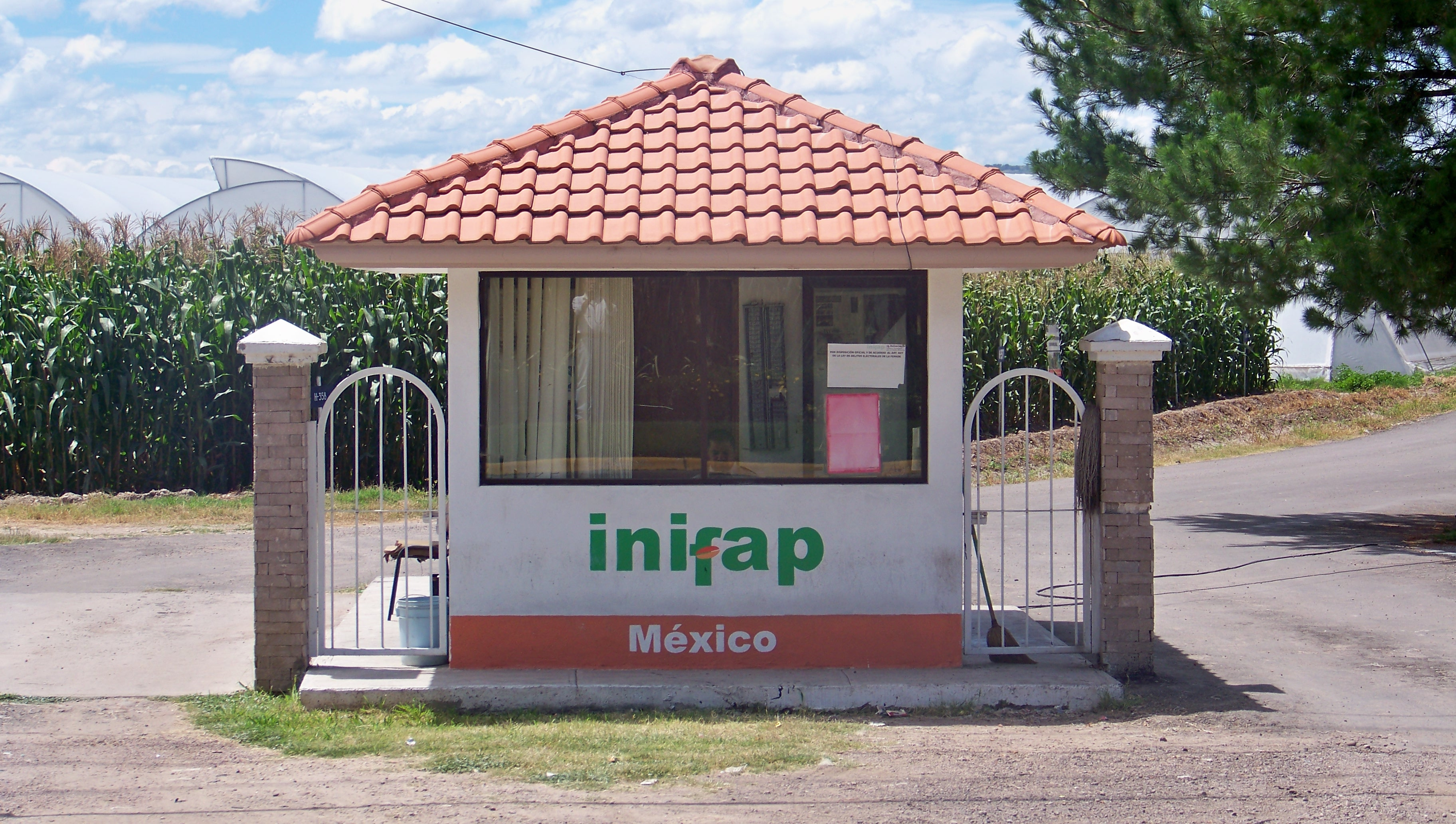 CASETA DE VIGILANCIA, INIFAP DURANGO